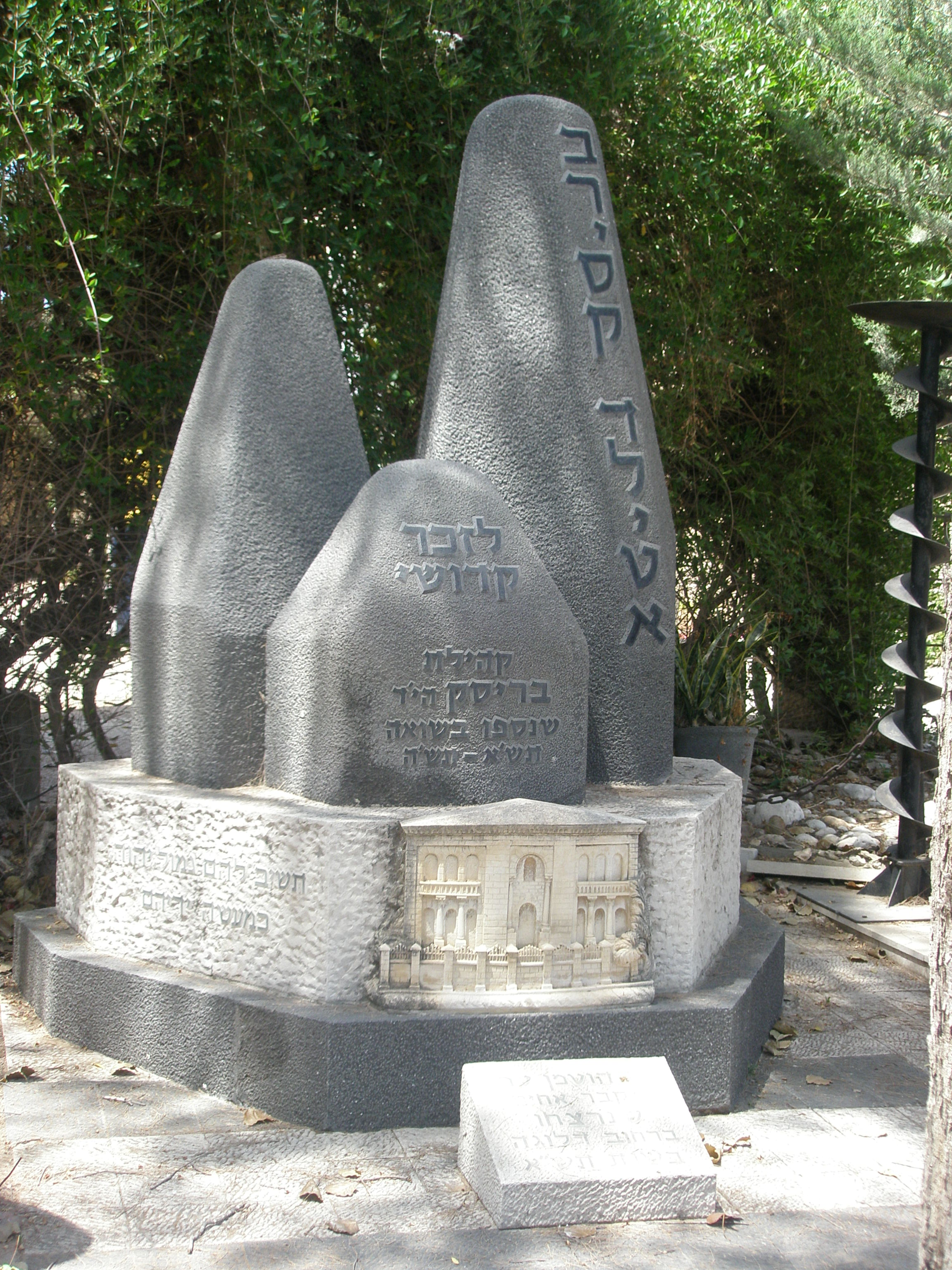 Brisk (Brest-Litovsk) Jewery memorial at Kiriat Shaul cemetery